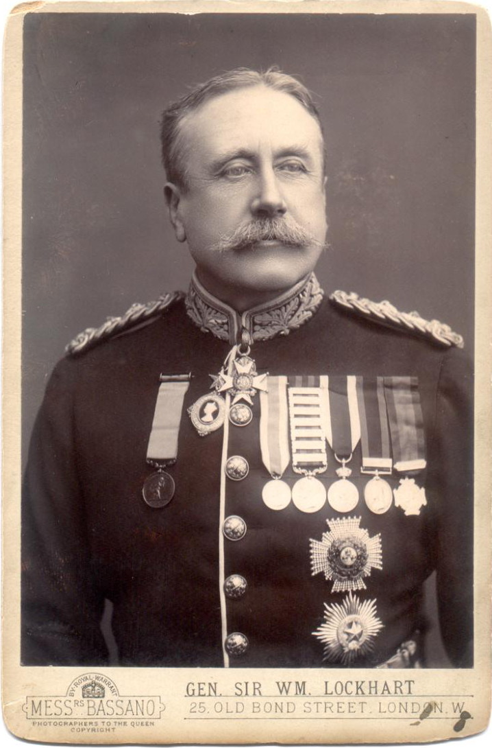 General Sir William Stephen Alexander Lockhart, GCB KCSI (2 September 1841 – 18 March 1900)